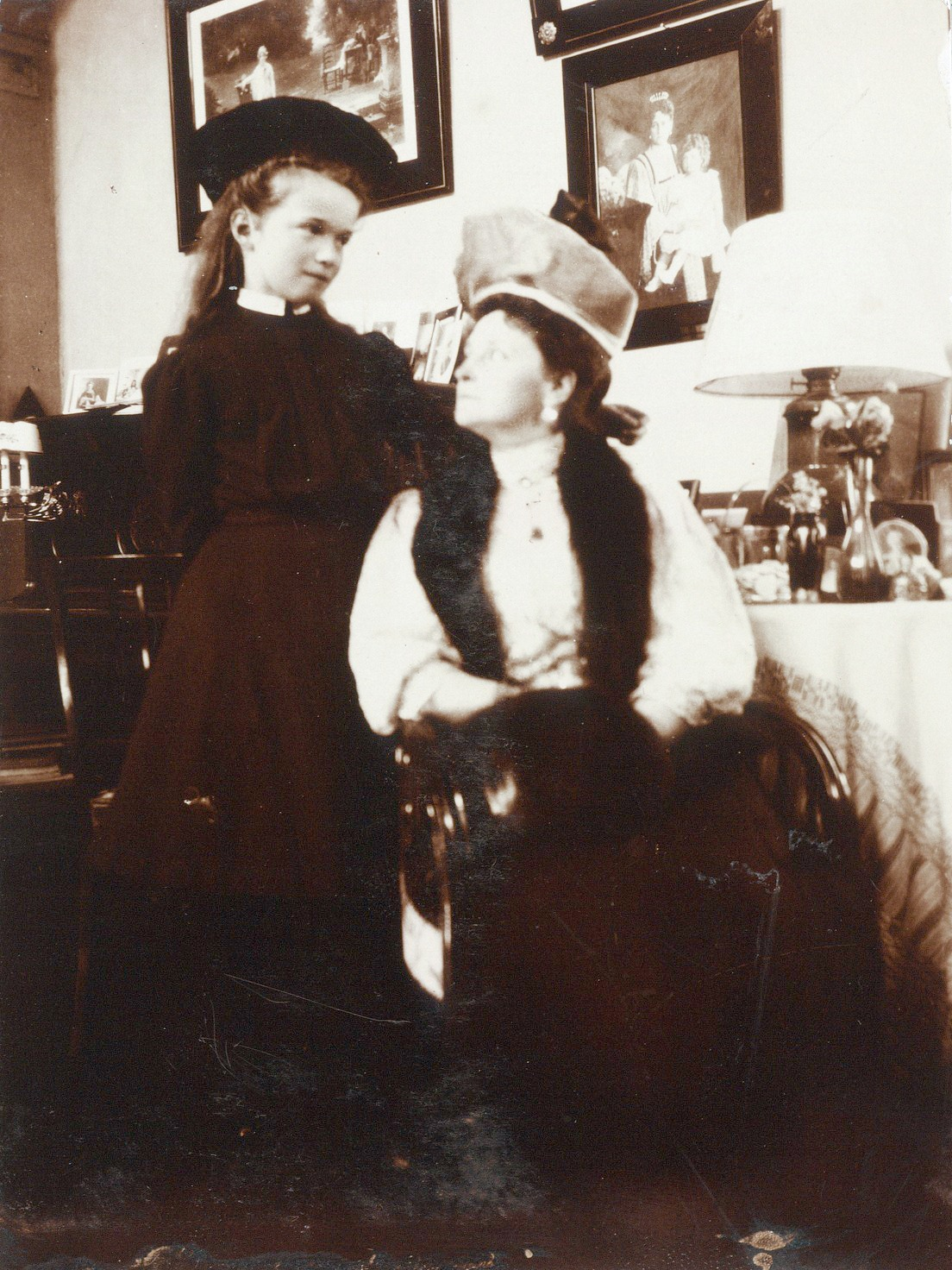 This photo of Grand Duchess Olga Nikolaevna of Russia and Tsarina Alexandra is from the Beinecke Library and can be used with attribution. The correct credit line is Romanov Collection, General Collection, Beinecke Rare Book and Manuscript Library, Yale University.